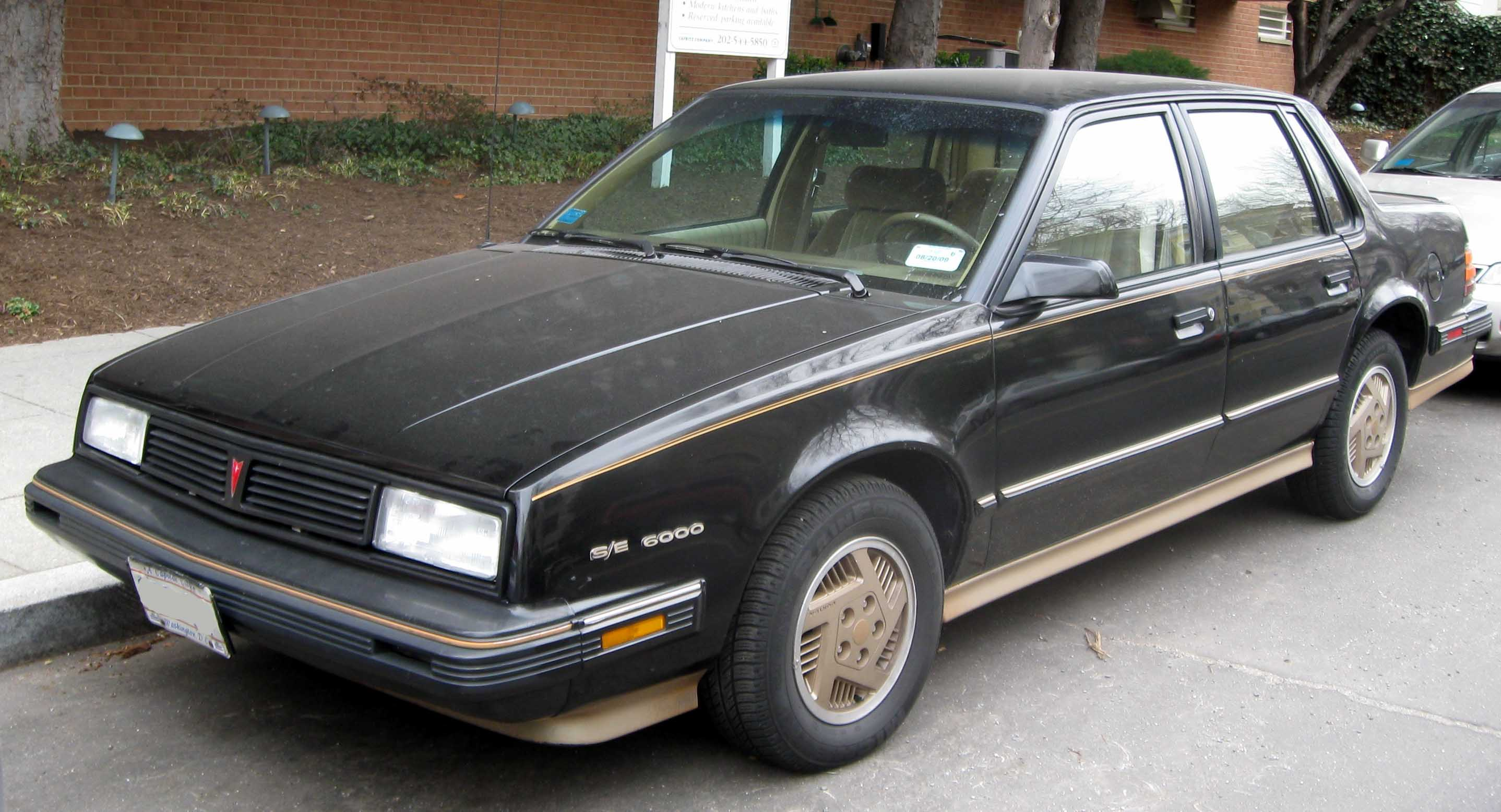 1987/88 Pontiac 6000 S/E photographed in Washington, D.C., USA.